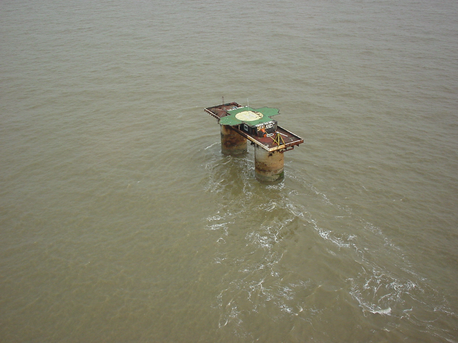 Sealand from a helicopter.